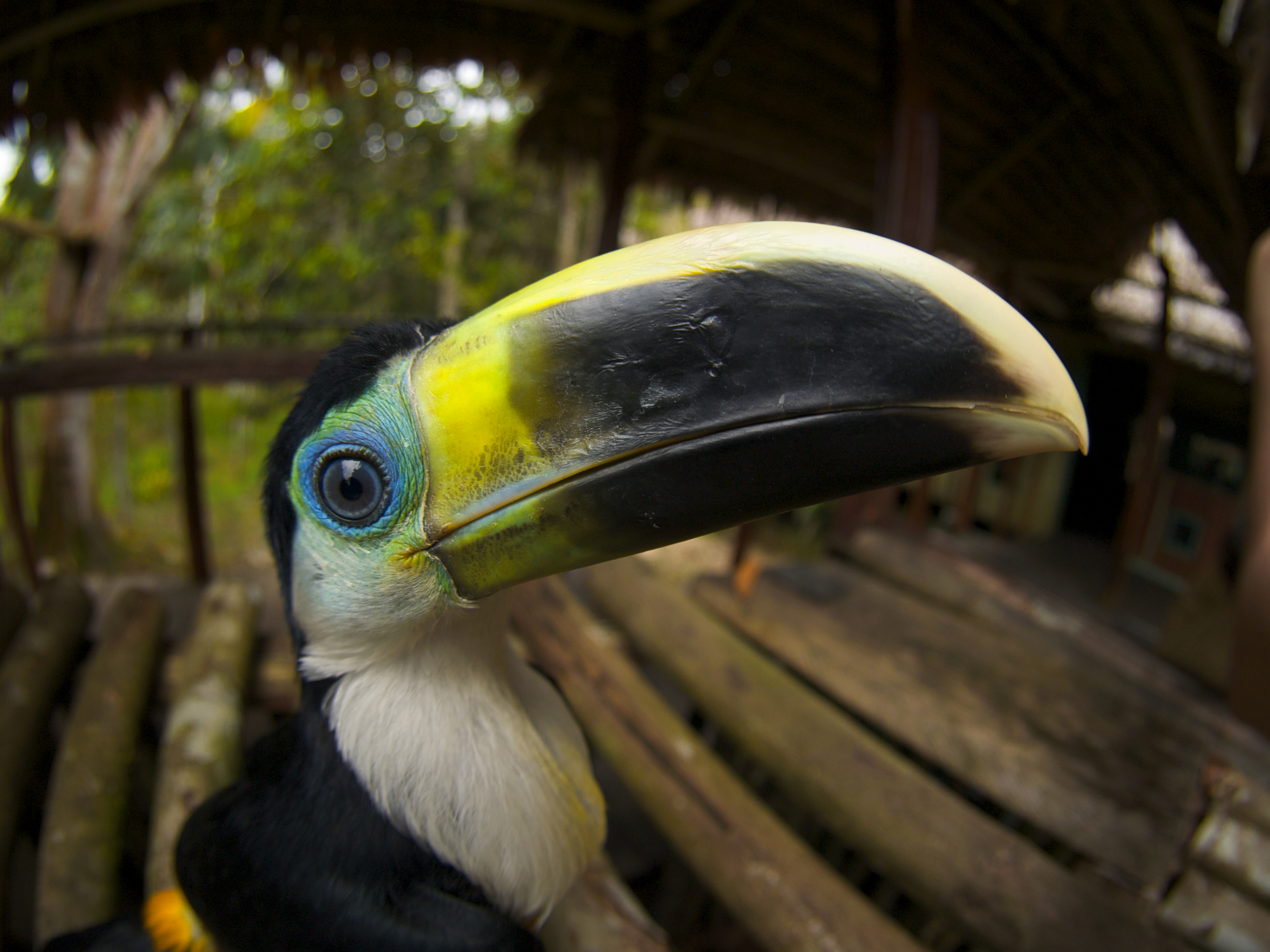 A juvenile Channel-billed Toucan at the Palmari Reserve. 4º 17' 17 South - 70º 17' 33 West Reserva Natural Palmari, Amazon basin, Javarí River, Brazil.